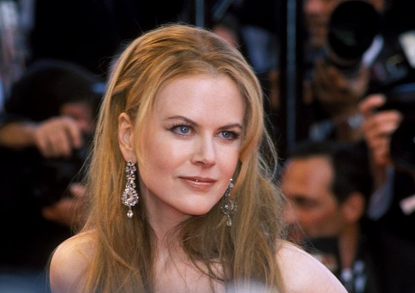 Nicole Kidman at Cannes in 2001.